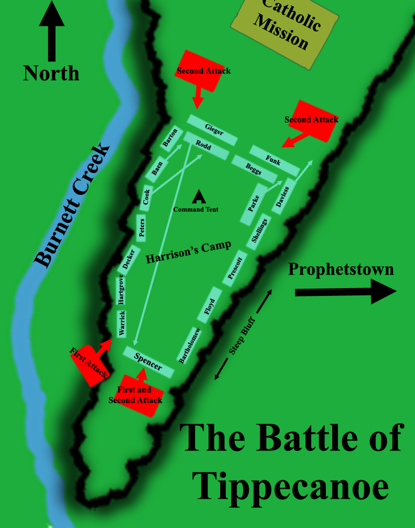 A map showing the battlefield layout at the Battle of Tippecanoe, fought in November 1811 near Battle Ground, Indiana.